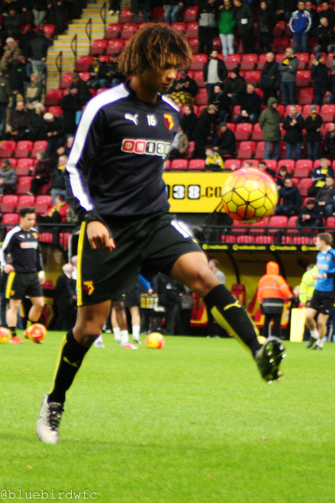 Nathan Aké